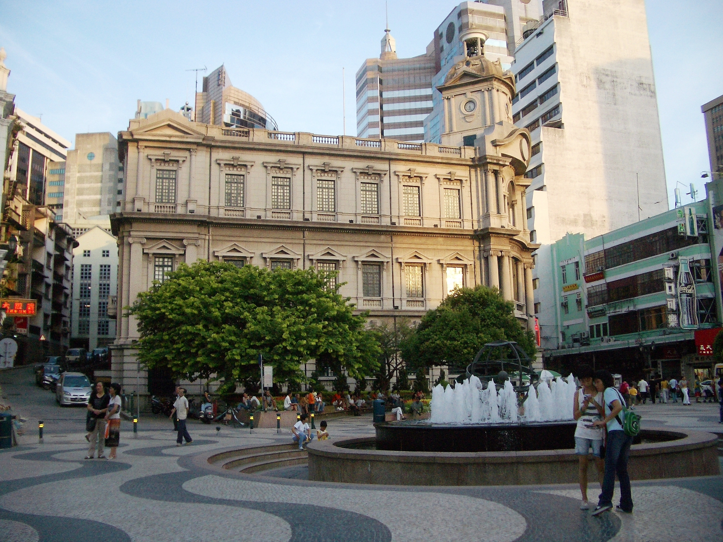 General Post Office of Macau